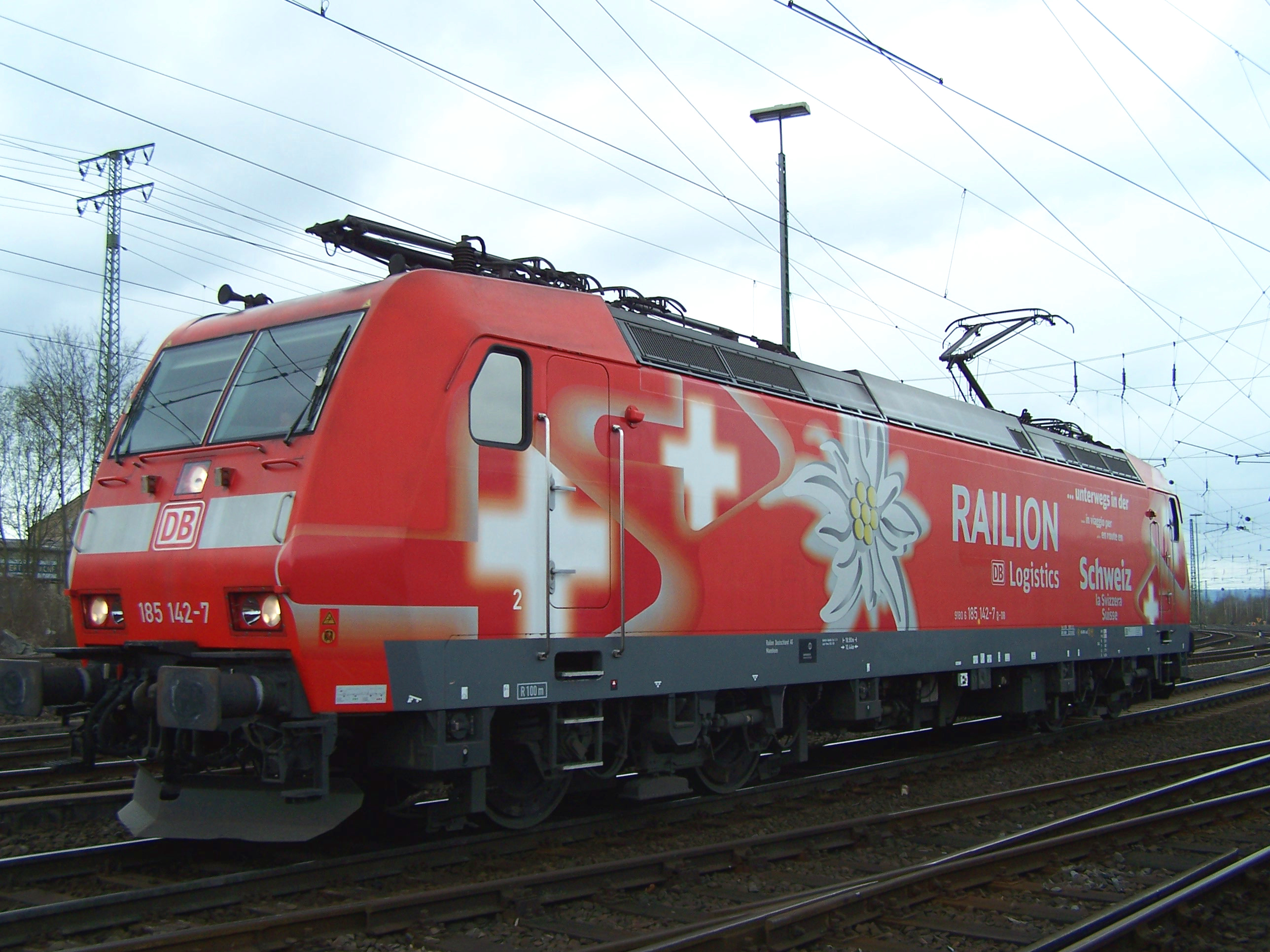 Electric locomotive 185 142 during a locomotive parade at the DB Museum in Koblenz-Lützel, a local branch of the Transport Museum in Nuremberg, April 2010